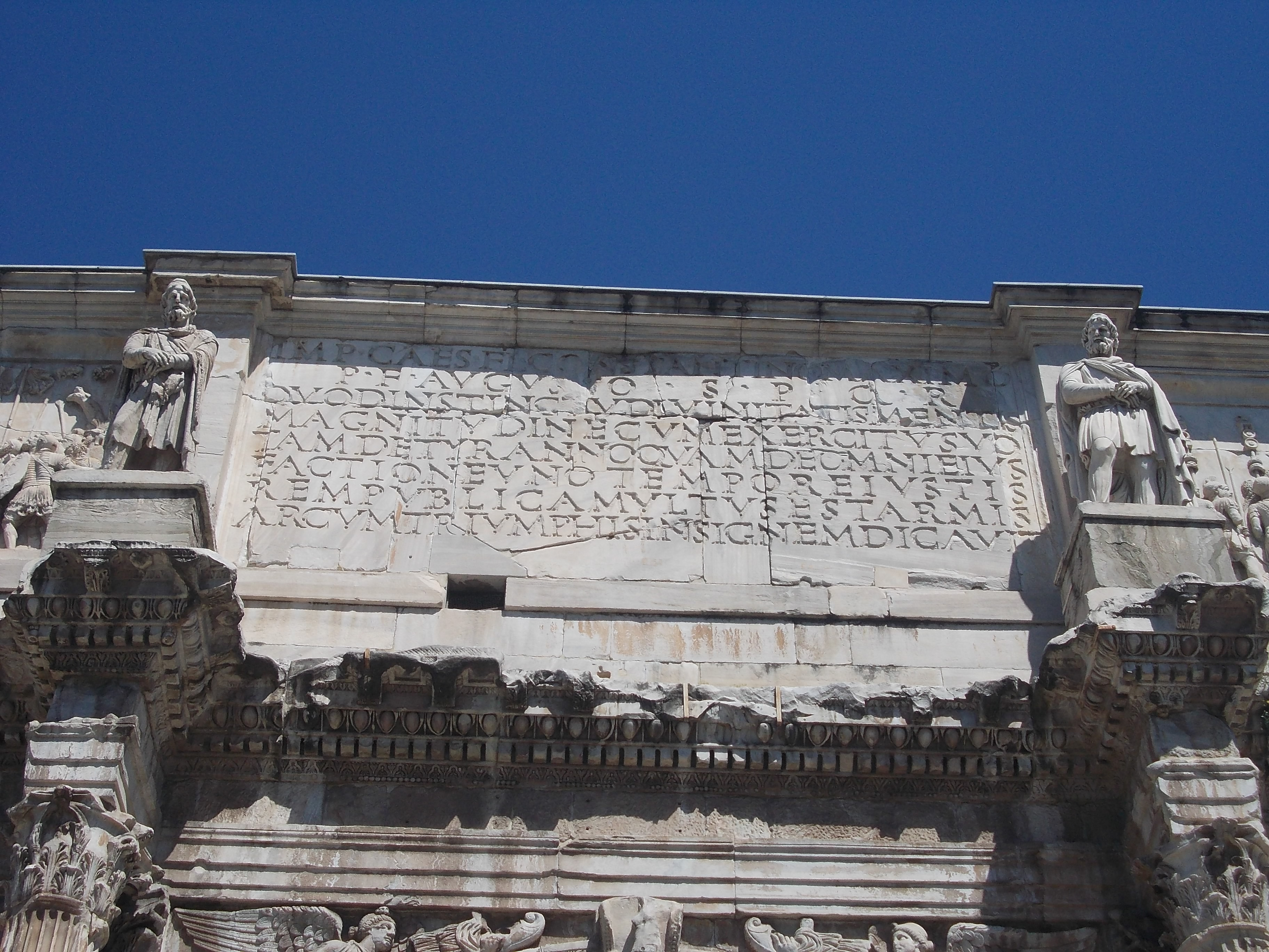 Arch of Constantine in Rome, main inscription